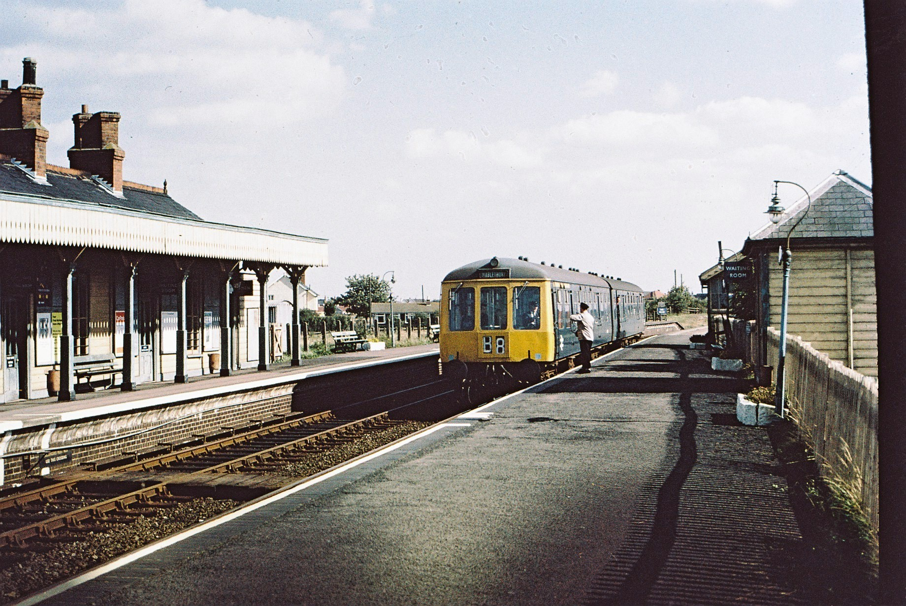 Sutton-on-Sea railway station looking south-east.